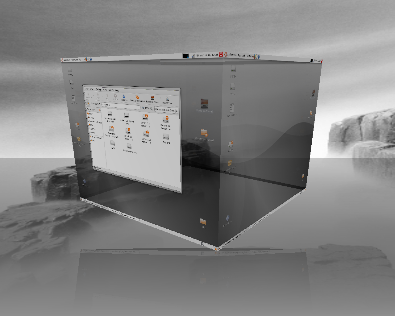 Compiz-fusion with Ubuntu Feisty Fawn & Xgl